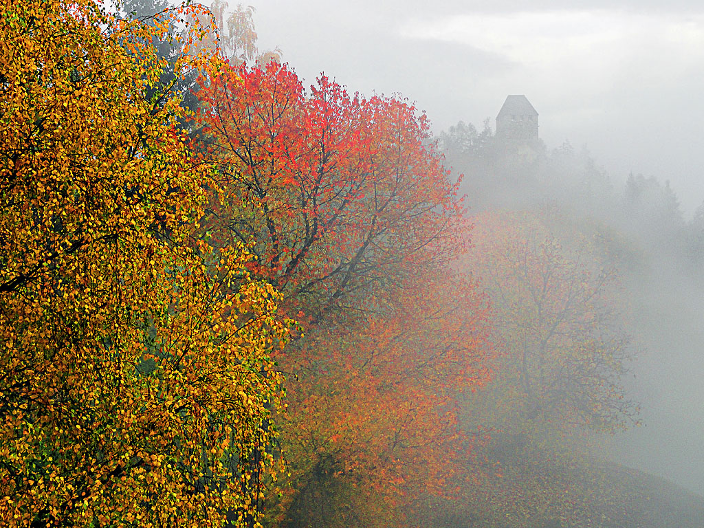 Eschenlohe castle in St. Pankraz, South Tyrol